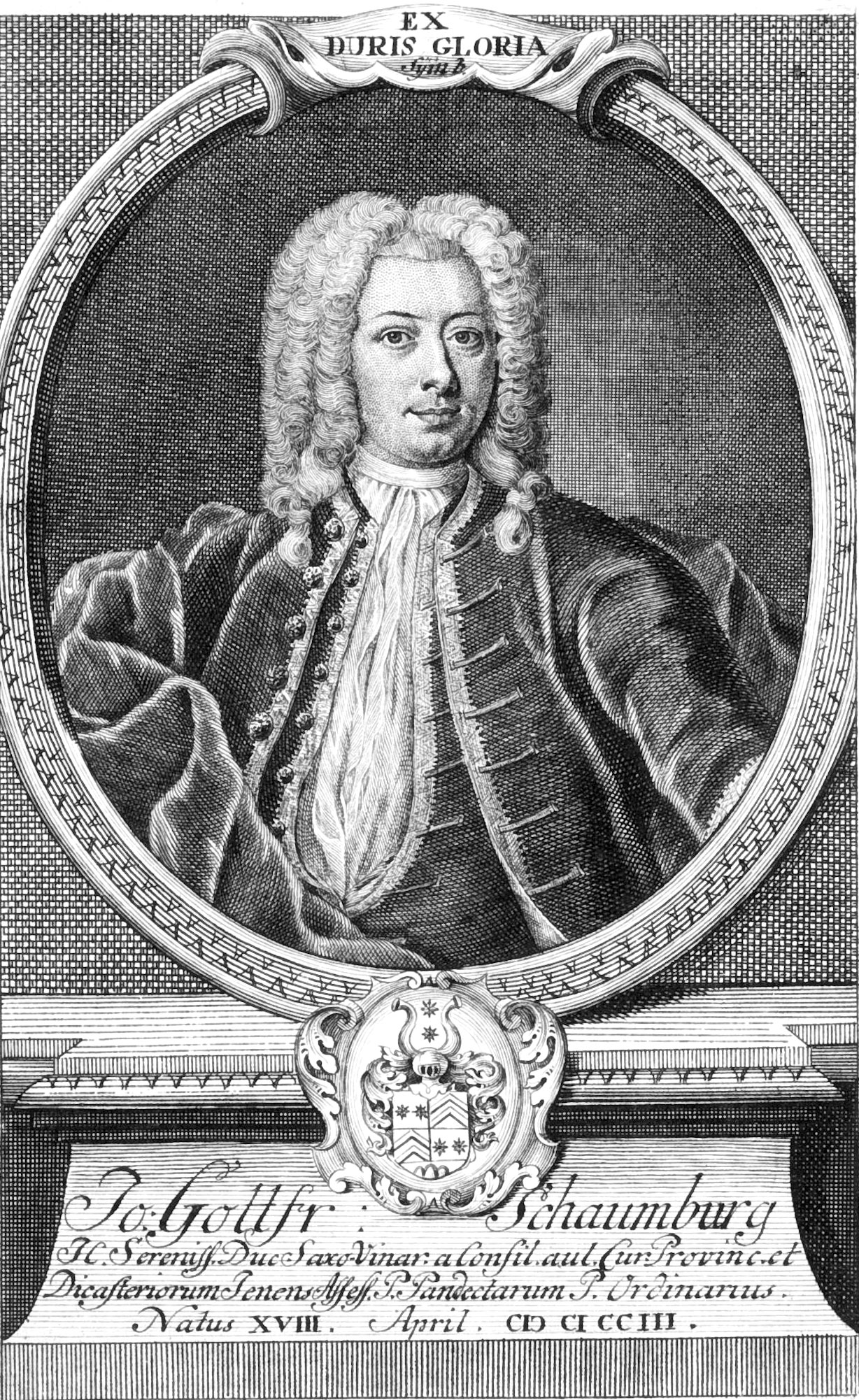 Johann Gottfried Schaumburg (1703-1746), german legal scholar